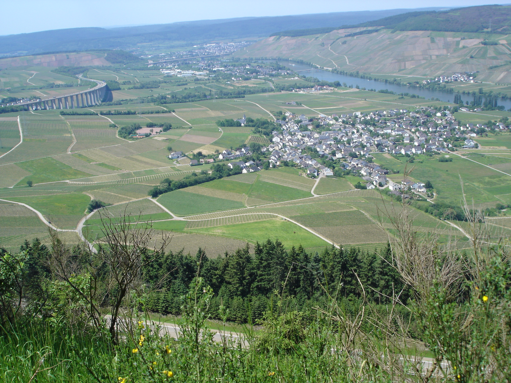 Riol